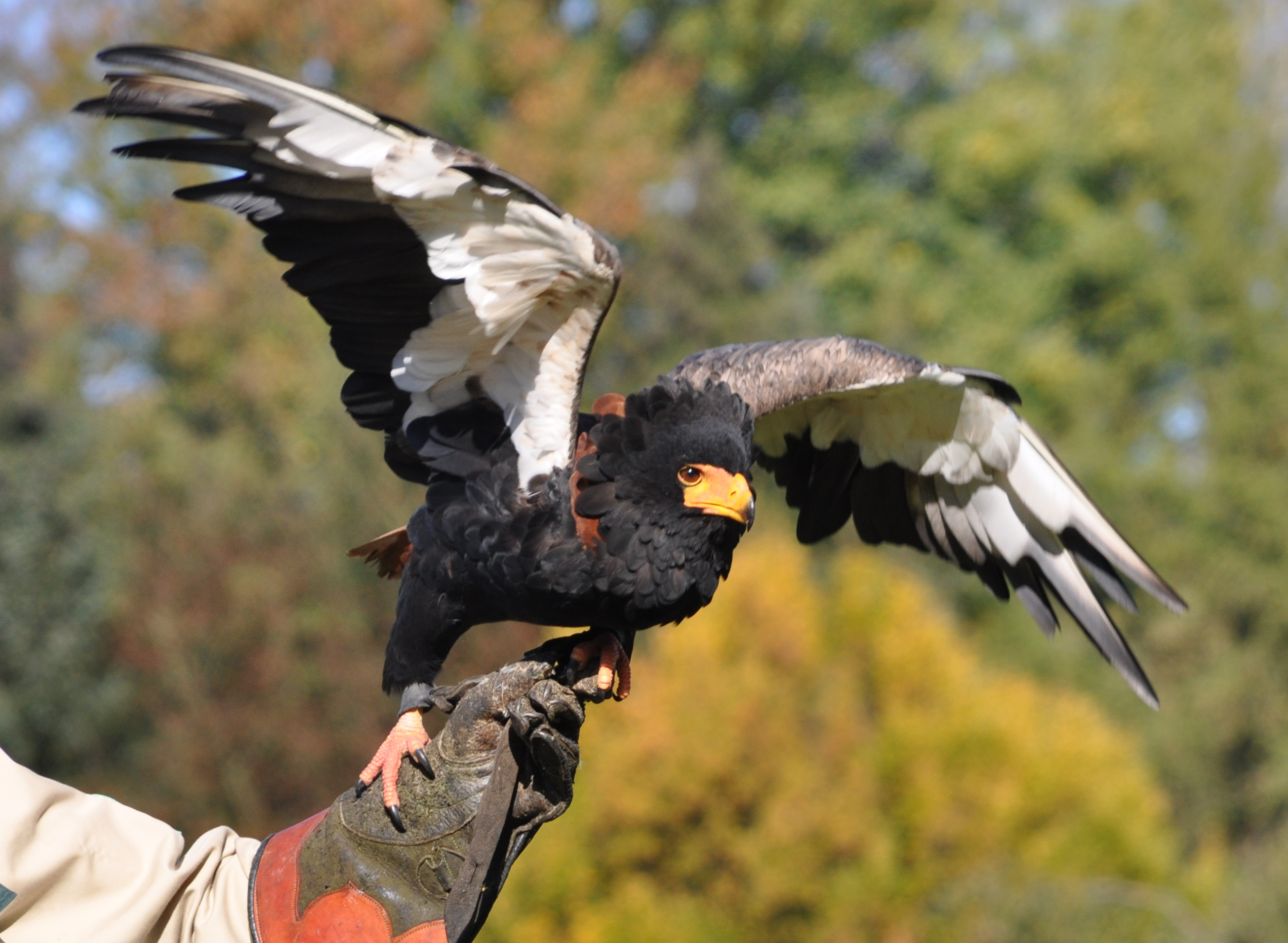 Bateleur Eagle (Terathopius ecaudatus) in the Walsrode Bird Park, Germany.